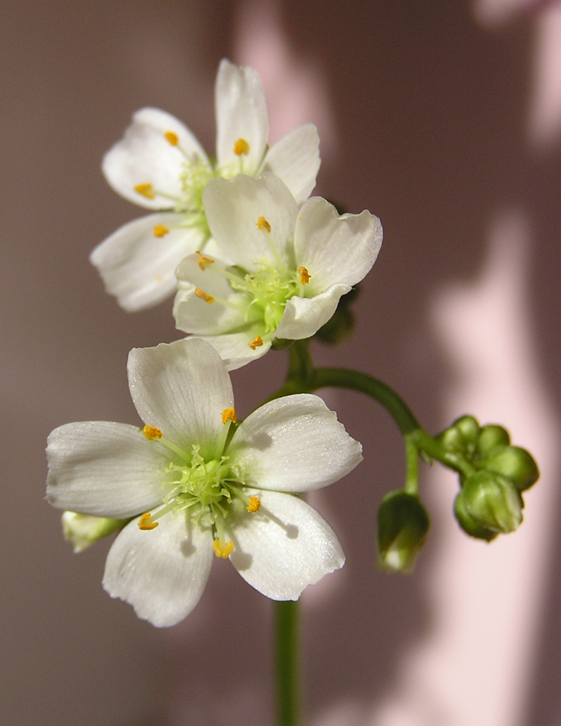 Drosera binata inflorescence